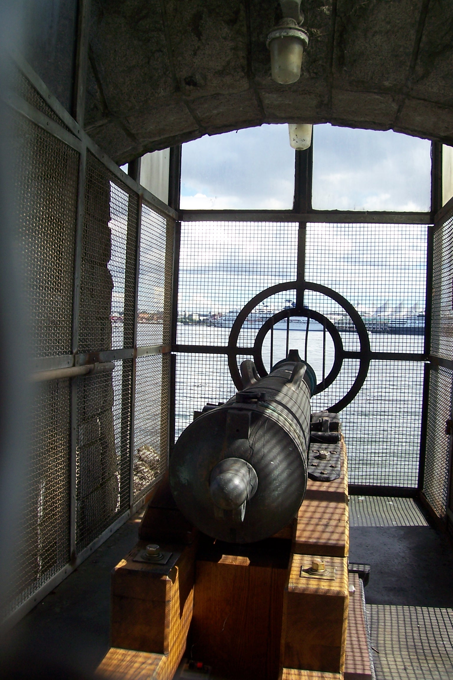 A closer view of the Nine O'Clock Gun, taken by Will Simpson.